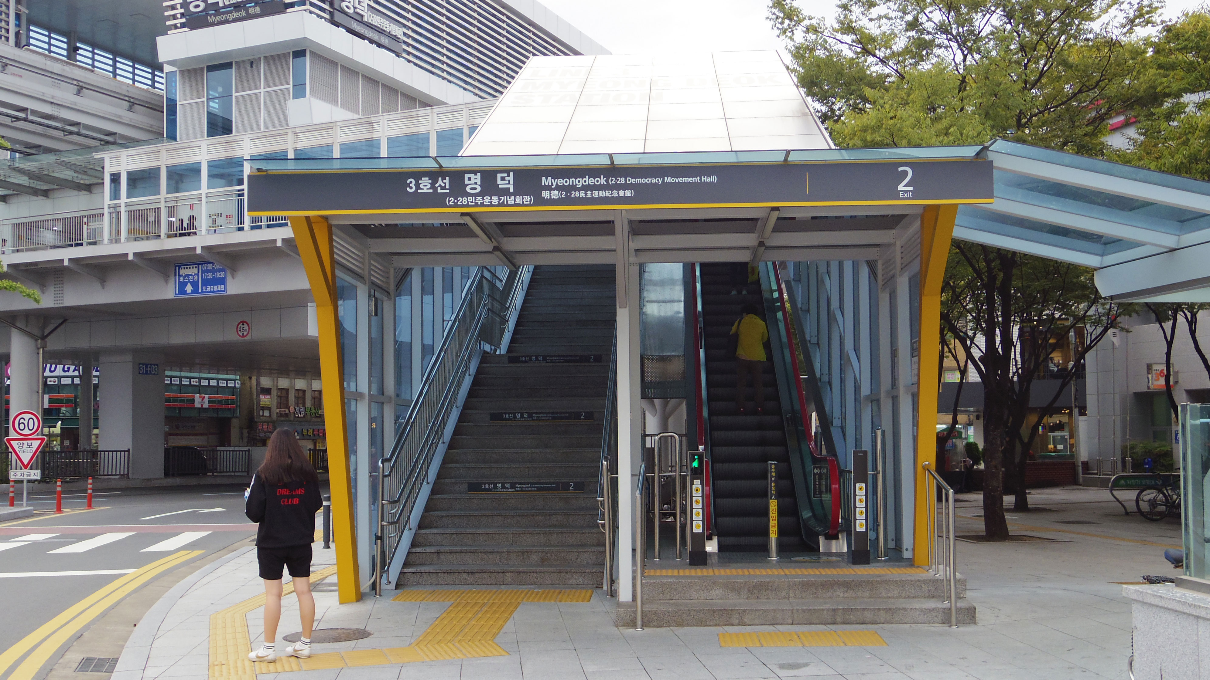 The entrance no.2 of Myeongdeok Station on the Daegu Metro Line 3